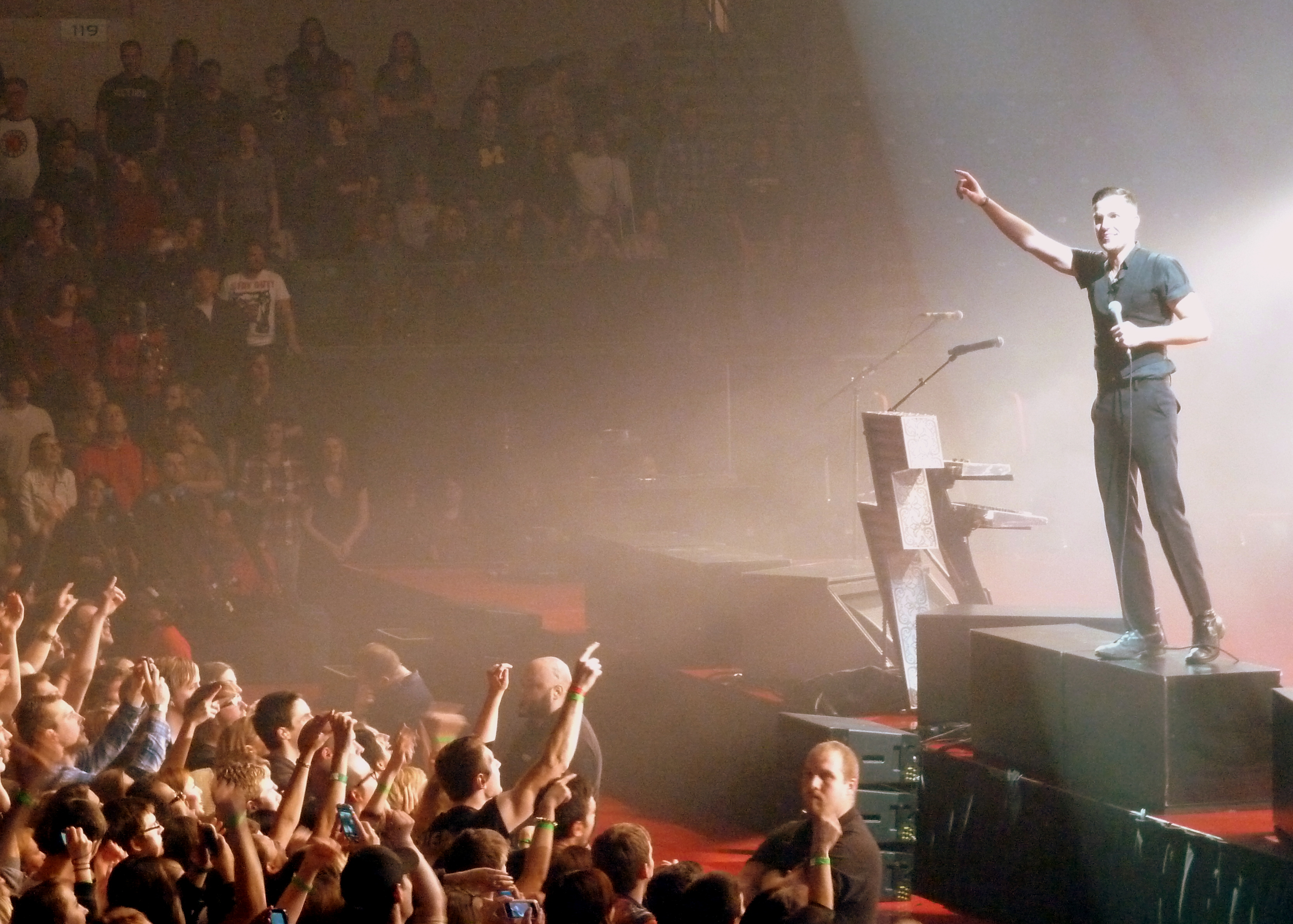 Brandon Flowers of the band The Killers performing at Eastern Michigan University Convocation Center in Ypsilanti near Detroit, Michigan